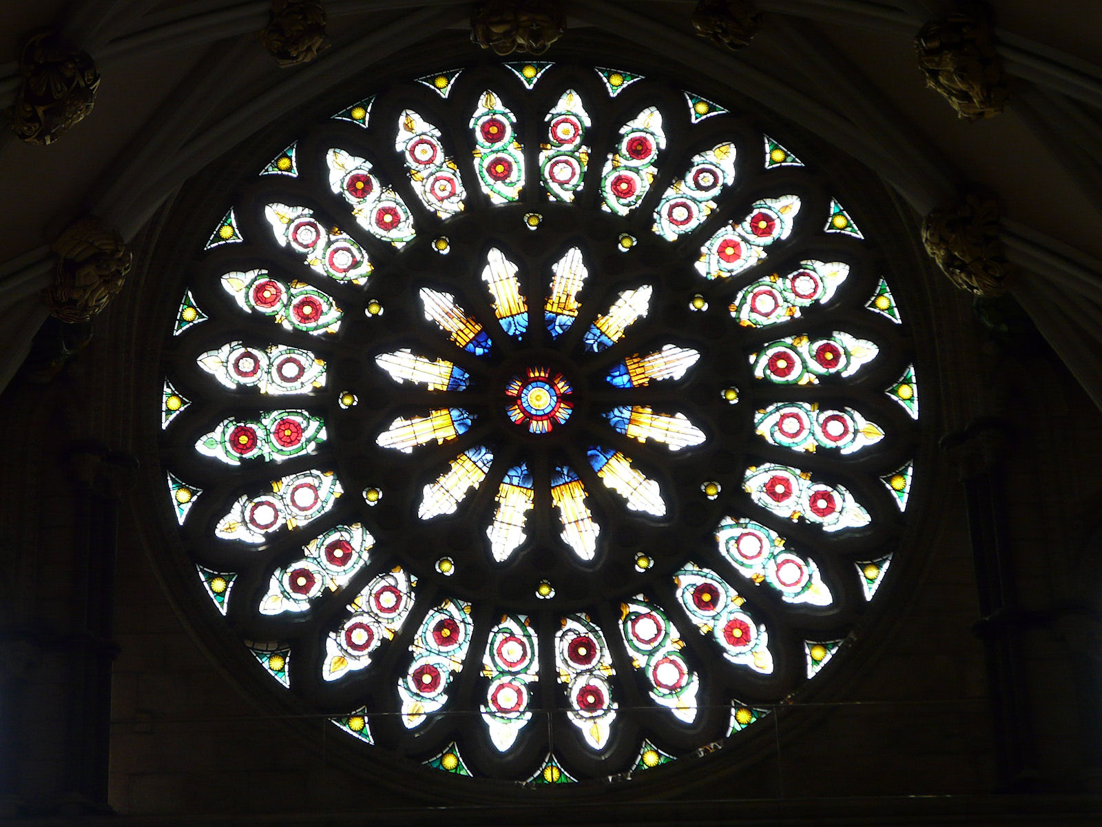 Rose window on the south transept at York Minster, York, England